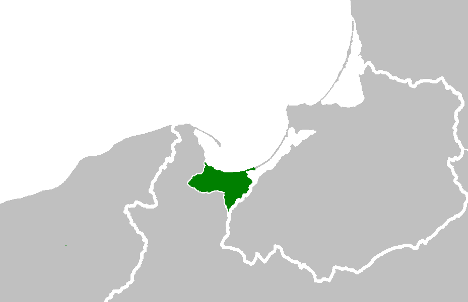 locator map of Free City of Danzig (i.e. Freie Stadt Danzig/Wolne Miasto Gdańsk) 1923–1939, inscriptions left out